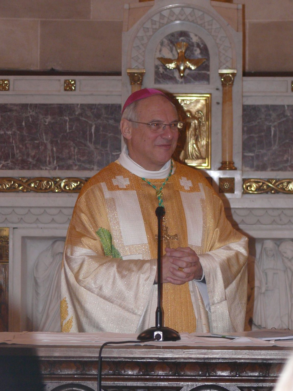 Mgr Jean-Paul Jaeger, bishop of Arras (France)